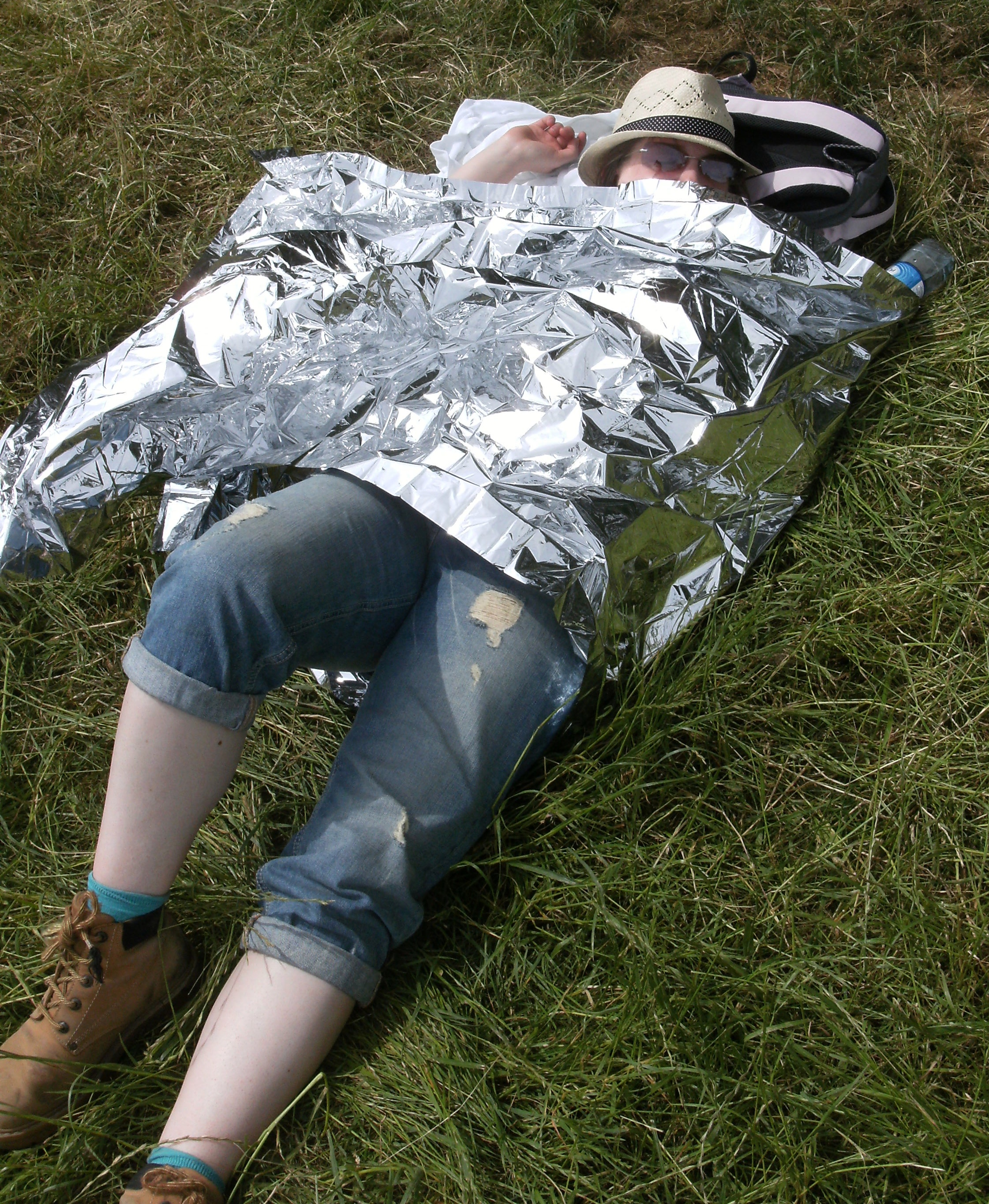 Up at the Stone Circle.